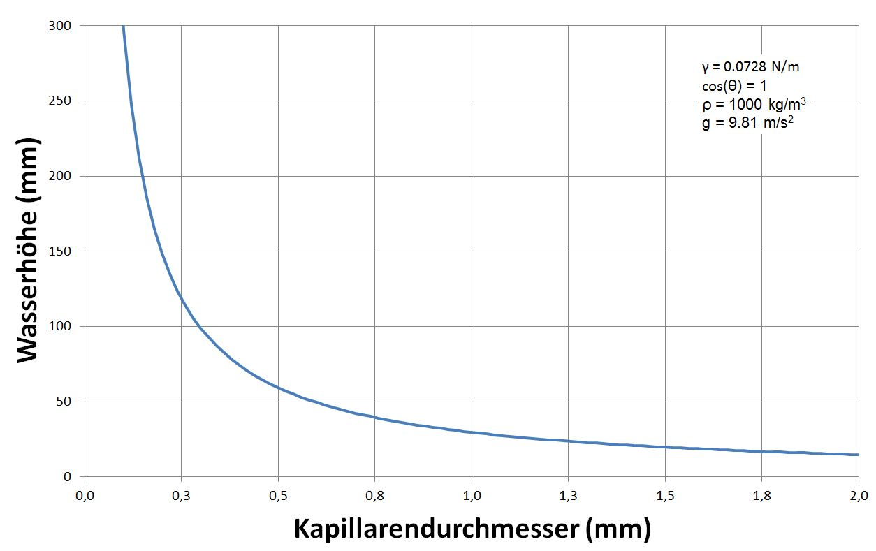 Water height due to capillary force in a glass tube - Calculated with sigma = 0.0728 N/M, cos(theta) = 1.0, density = 1000 kg/m3 and g = 9.81 m/s2